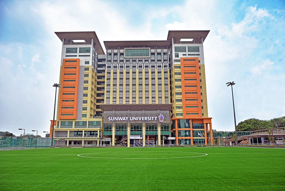 This is the image of new building of Sunway University